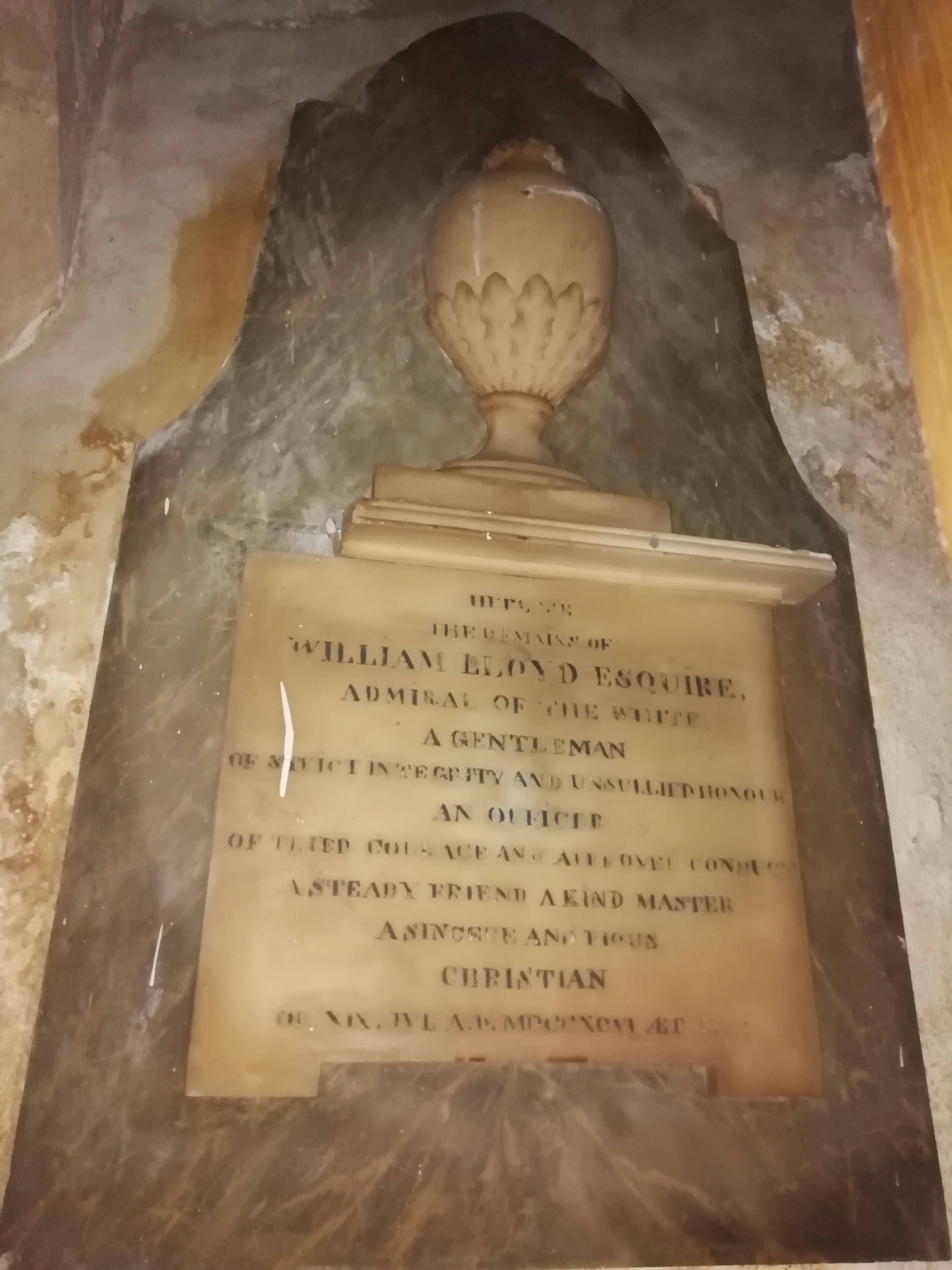 Admiral William Lloyd Monument, St Cadog's Church in Llangadog, Wales